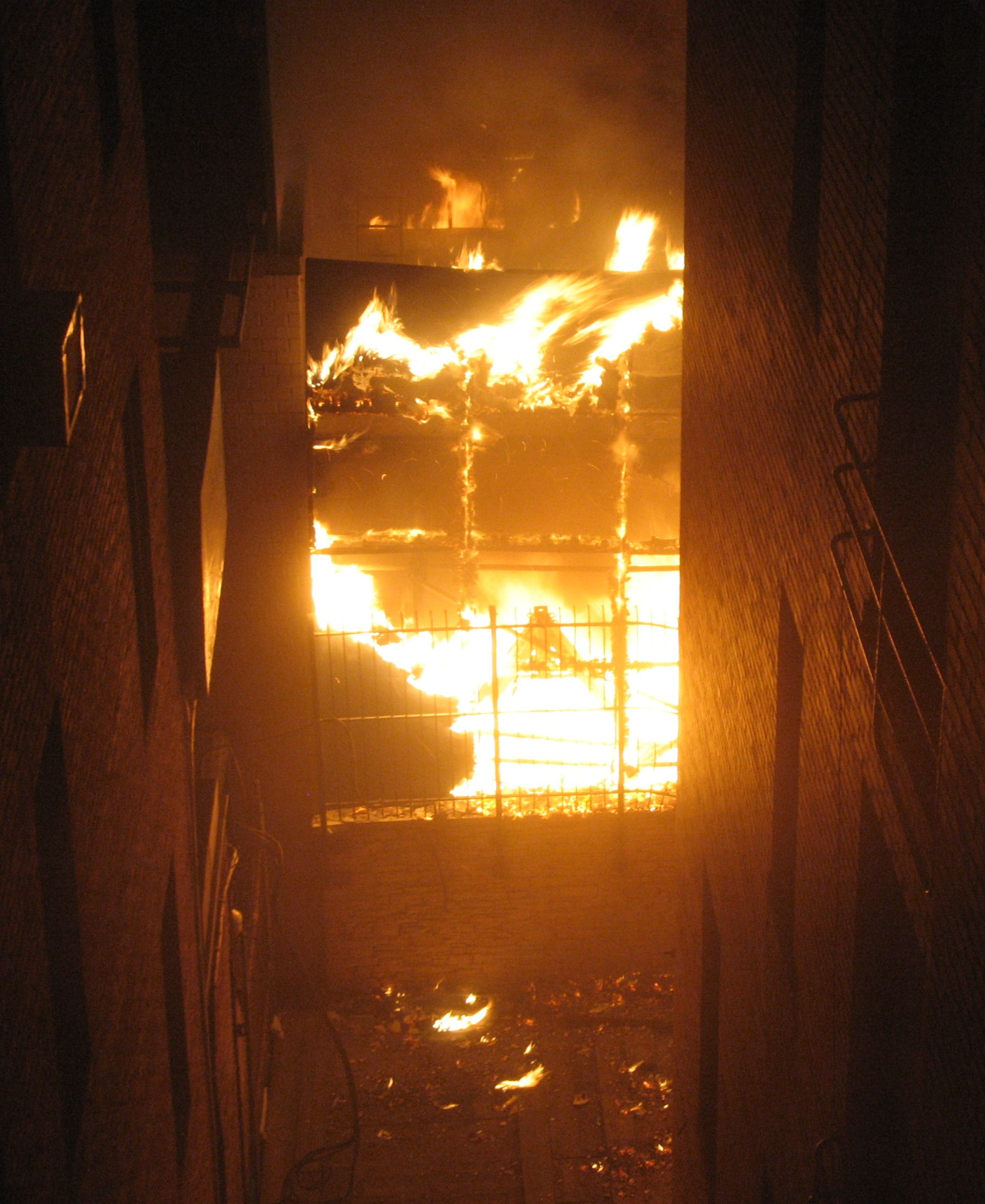 On March 15, 2014, a fire broke out in the loading dock of Extell's One57, spreading into the courtyard behind the building and then onto the adjacent property.